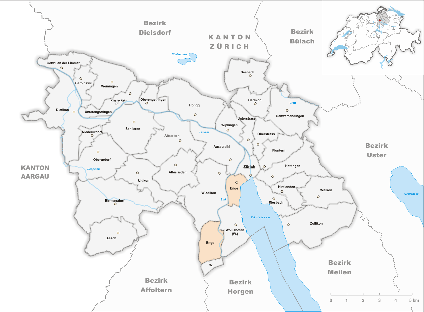 Municipality Enge